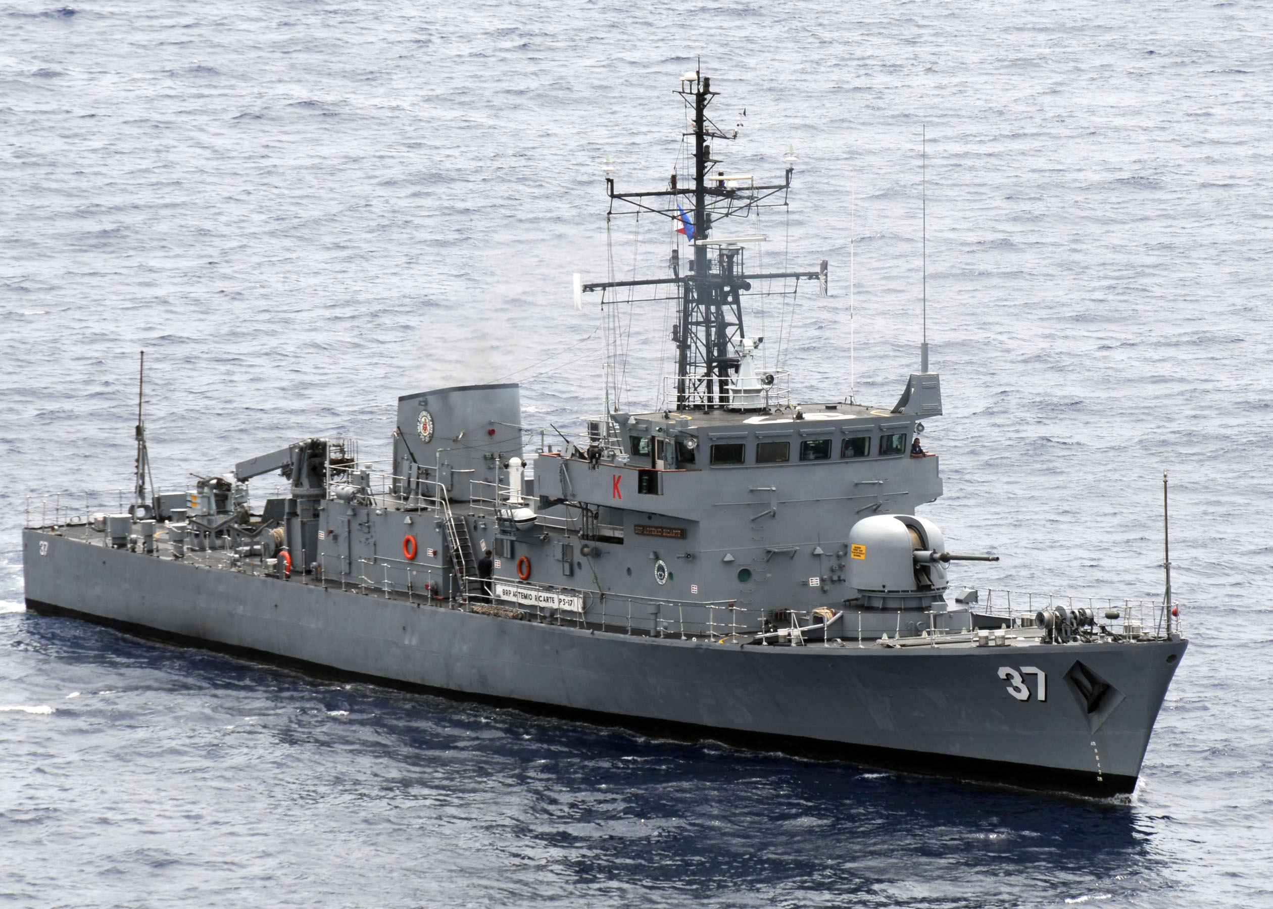 SOUTH CHINA SEA (April 21, 2009) The Armed Forces of the Philippines Navy patrol boat BRP Artemio Ricarte (PS 37) maneuvers into position in a formation exercise with the amphibious assault ship USS Essex (LHD 2) during exercise Balikatan 2009. Artemio Ricarte is participating in Balikatan 2009, an annual combined, joint-bilateral exercise involving U.S. and Armed Forces of the Philippines personnel, as well as subject matter experts from Philippine civil defense agencies. (U.S. Navy photo by Mass Communication Specialist 2nd Class Mark R. Alvarez/Released)